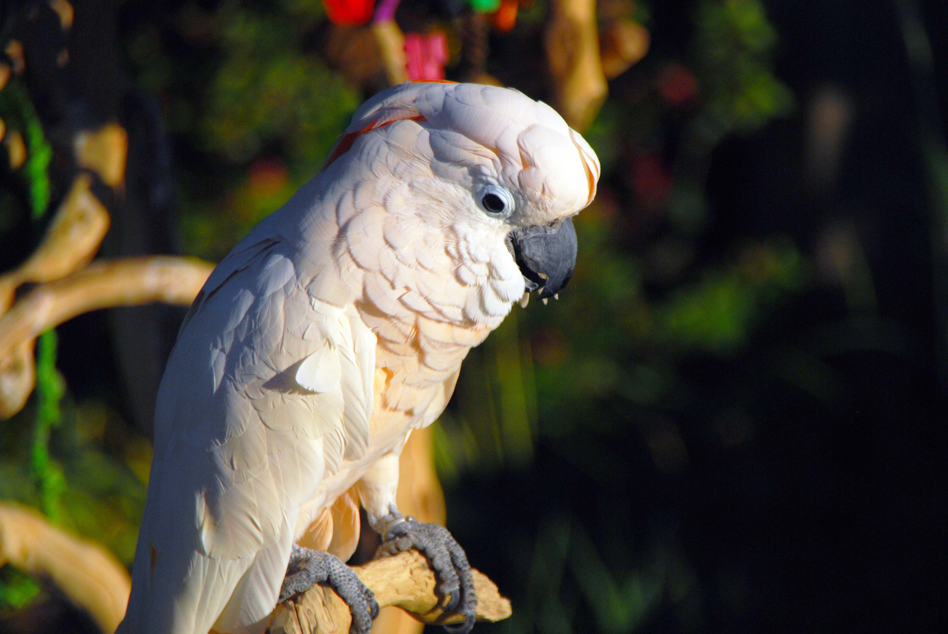 A pet Salmon-crested Cockatoo.